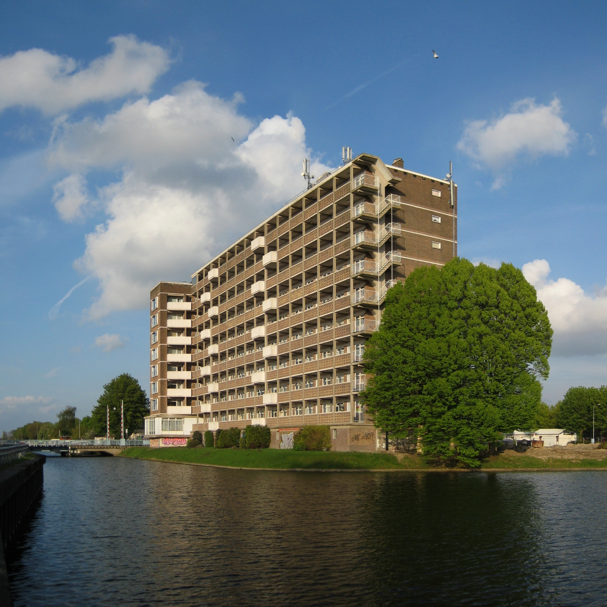 The Wielewaalflat (1955-'57), an apartment building in the Dutch city of Groningen.